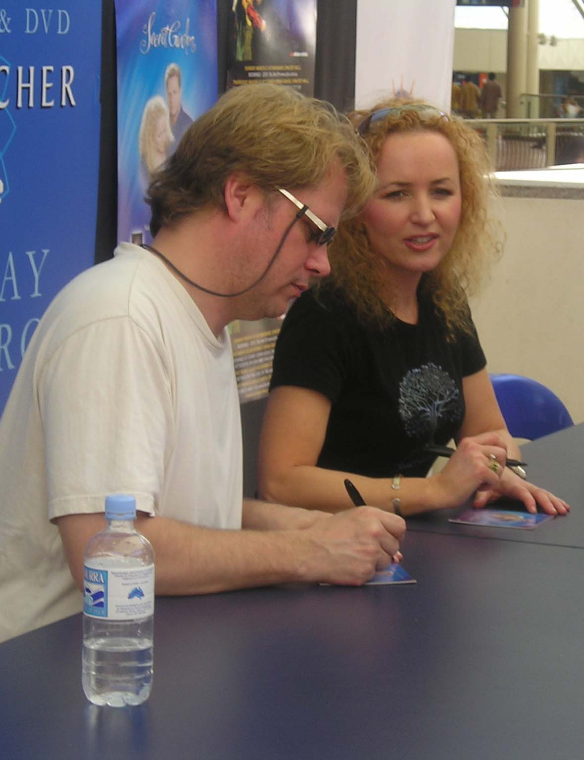 Rolf Lovland & Fionnuala